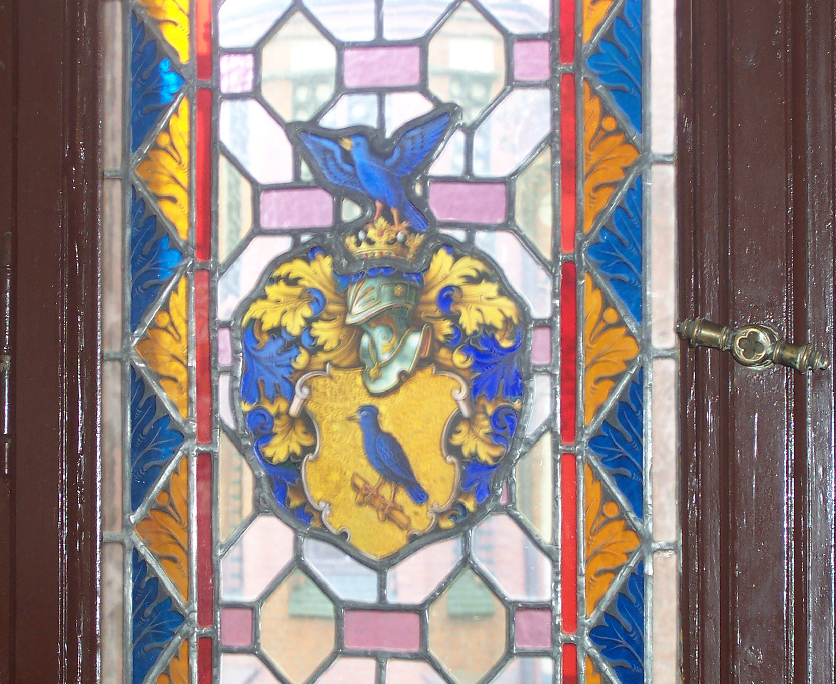 Poland, Lebork Townhall, Coat of Arms von Diezelski Family, Dziecielski, Dziecielska